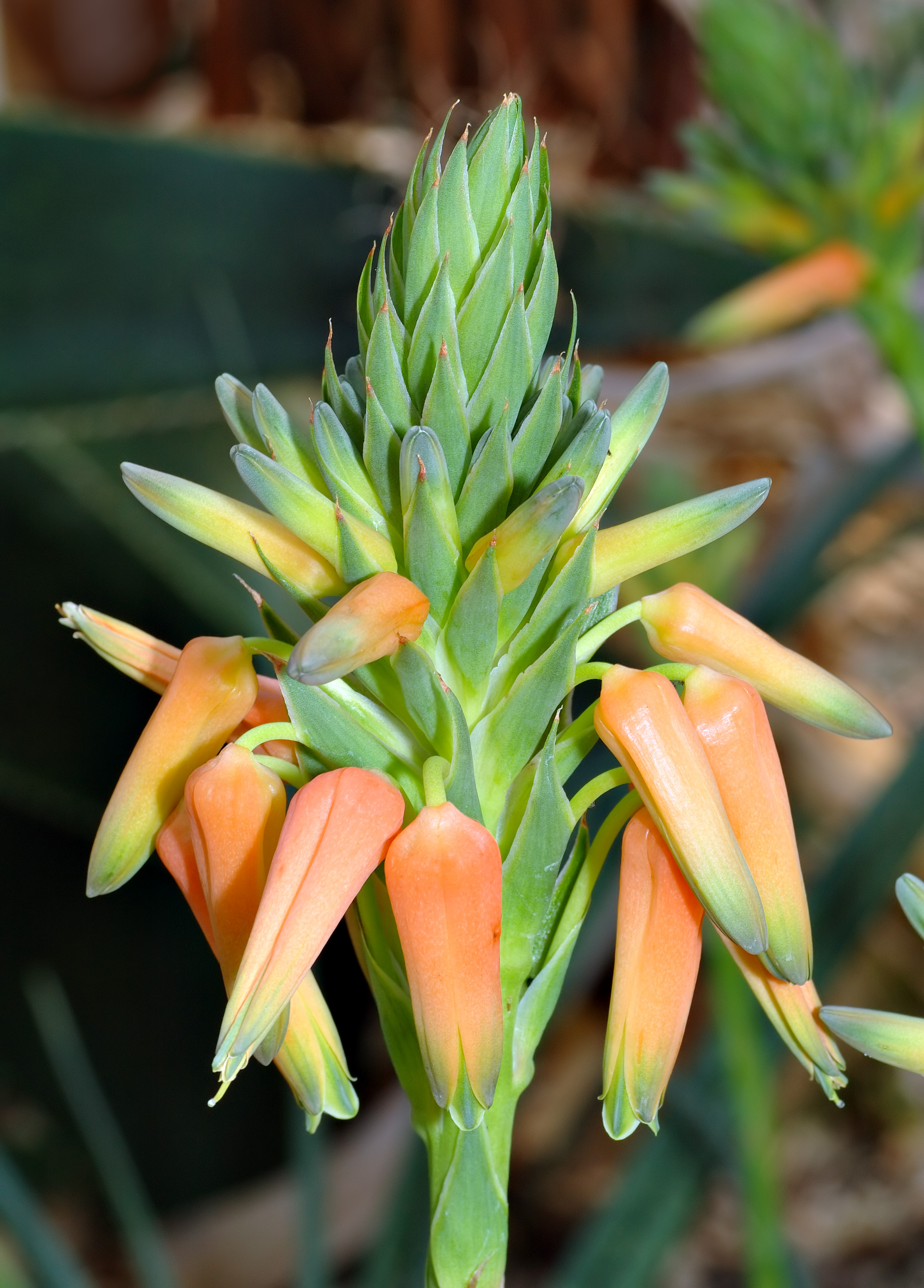 This image shows a plant of the species Aloe vossii.